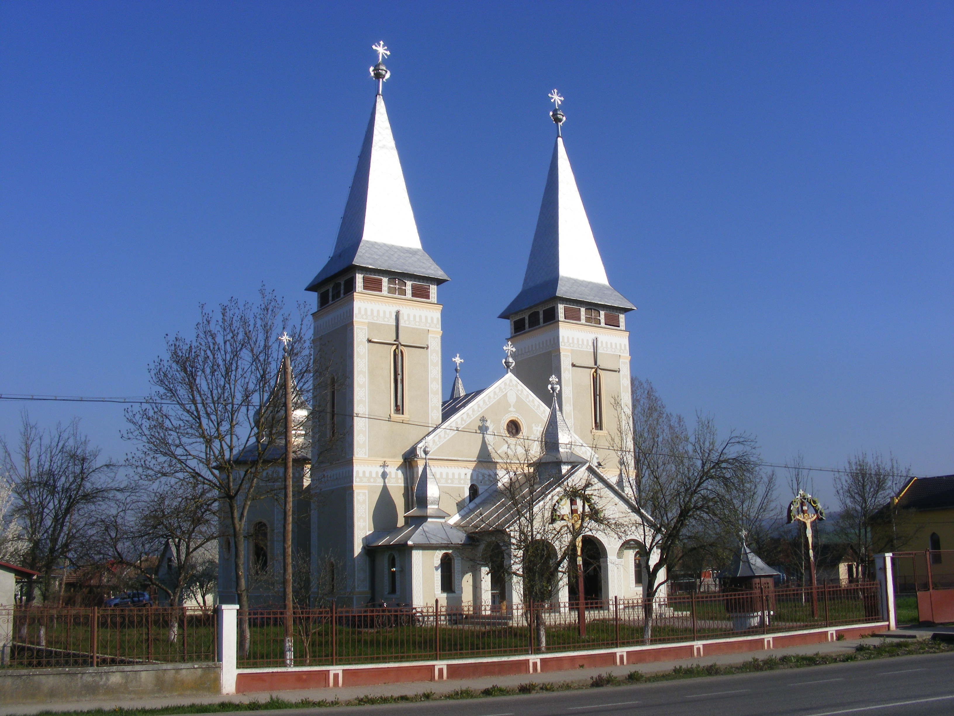 The ortodoxian church in Iclod, Romania.